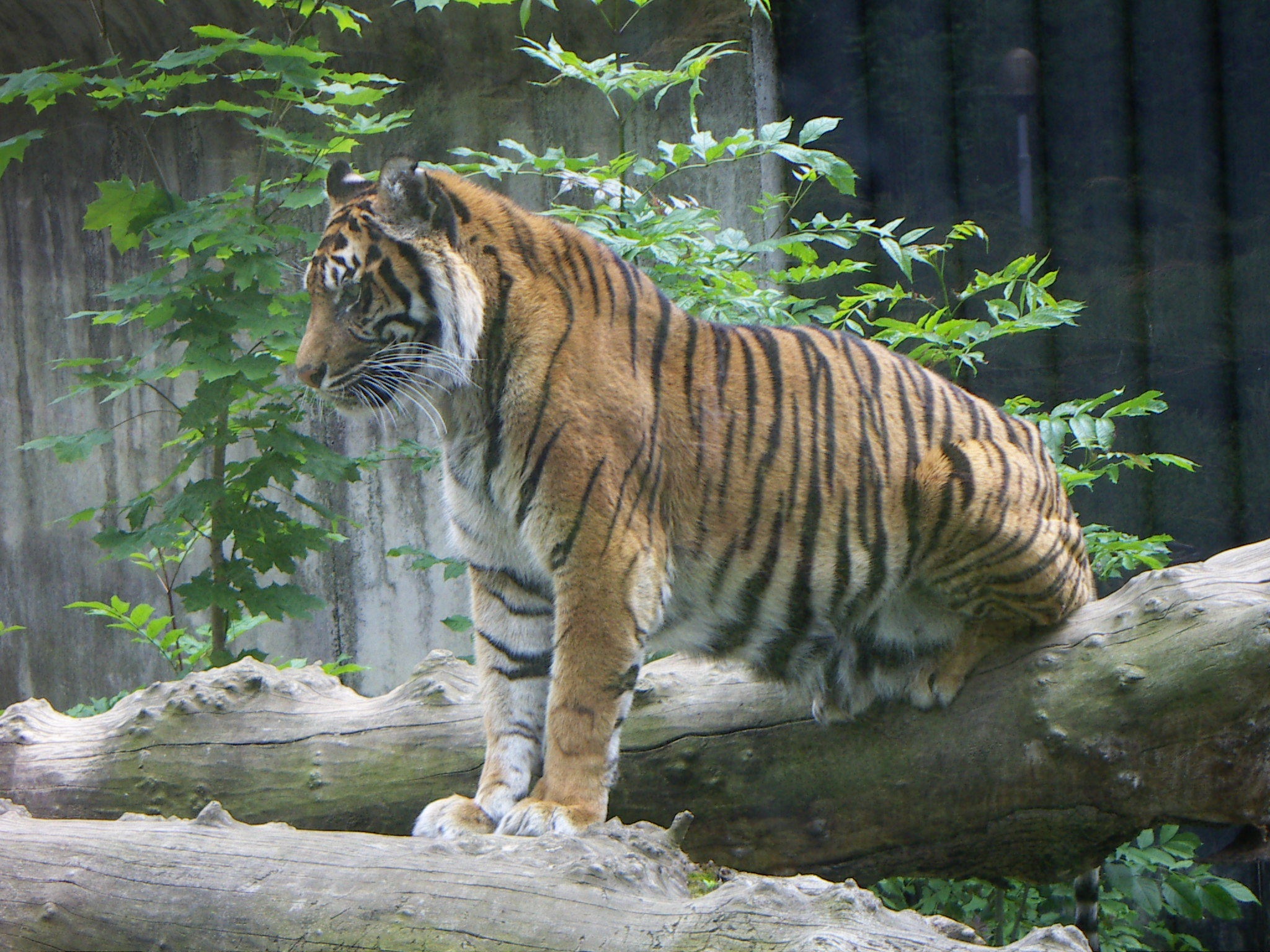 Sumatran tiger at Zoo Jihlava, Jihlava, Czech Republic